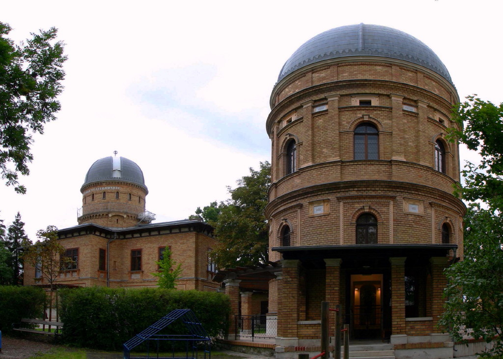 Kuffner Observatory, Vienna, Austria. The main building is in the background at left, while the Heliometer dome is in the foreground at right.